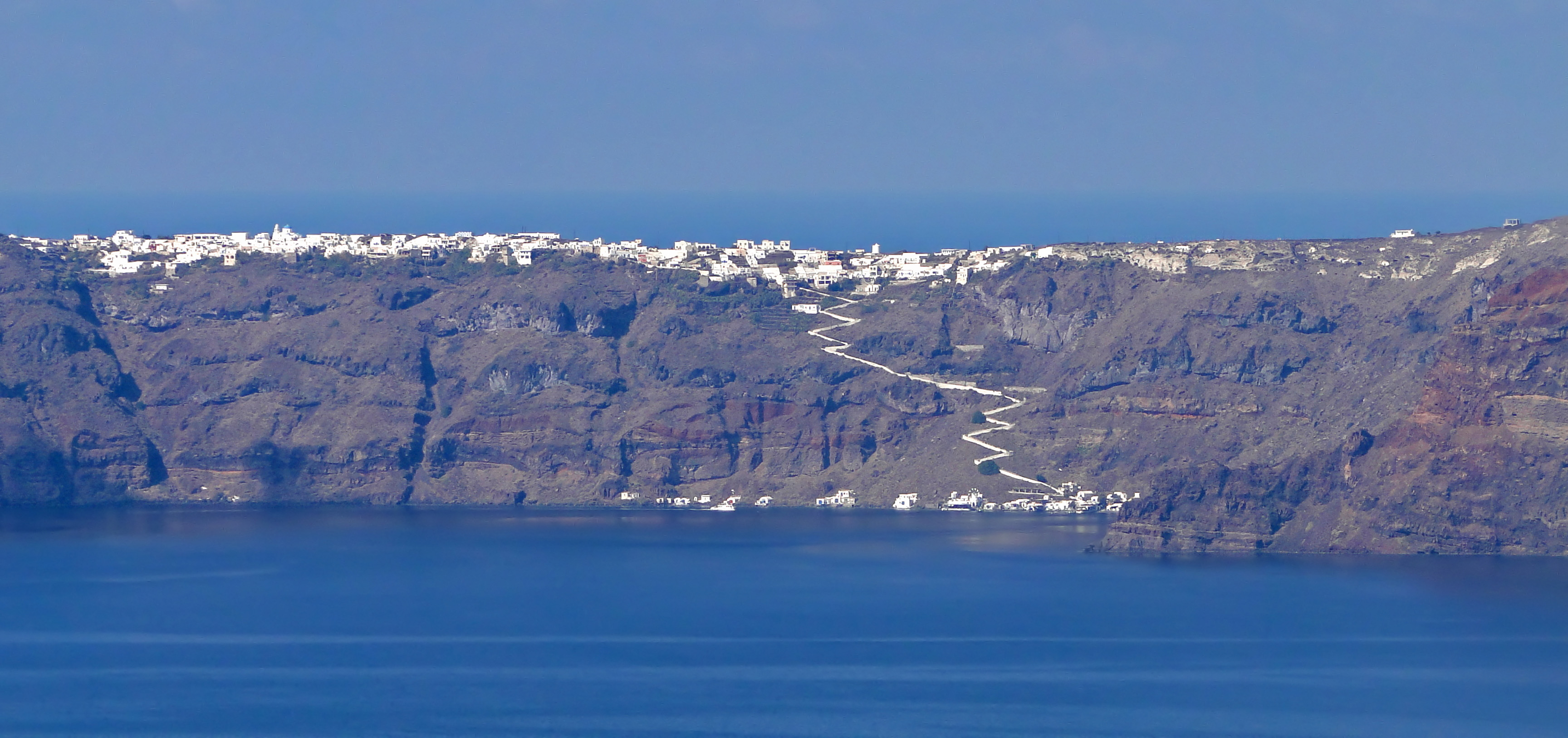 The village of Manolas on the island of Therasia seen from Santorini, Greece